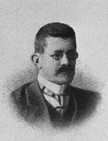 Christos Androutsos (1869-1935): Greek theologian, philosopher and university professor